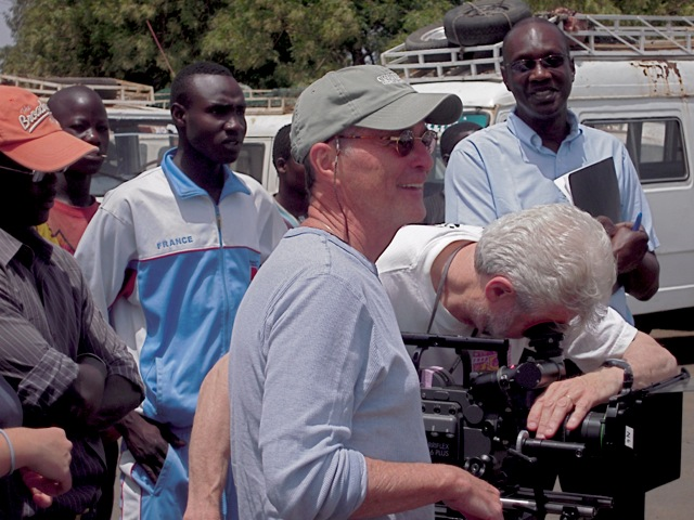 Robert Bilheimer and Richard Young in Senegal while working on the film "Not My Life"